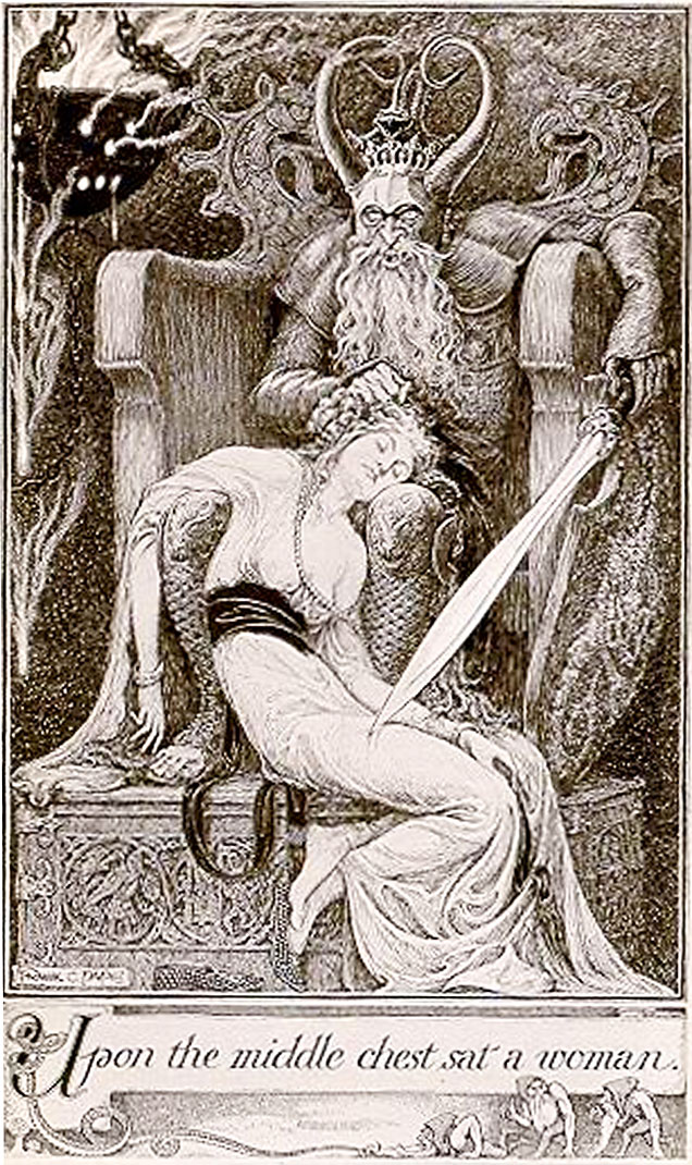 Frank C. Papé illustration for James Branch Cabell's Jurgen, A Comedy of Justice (1921)